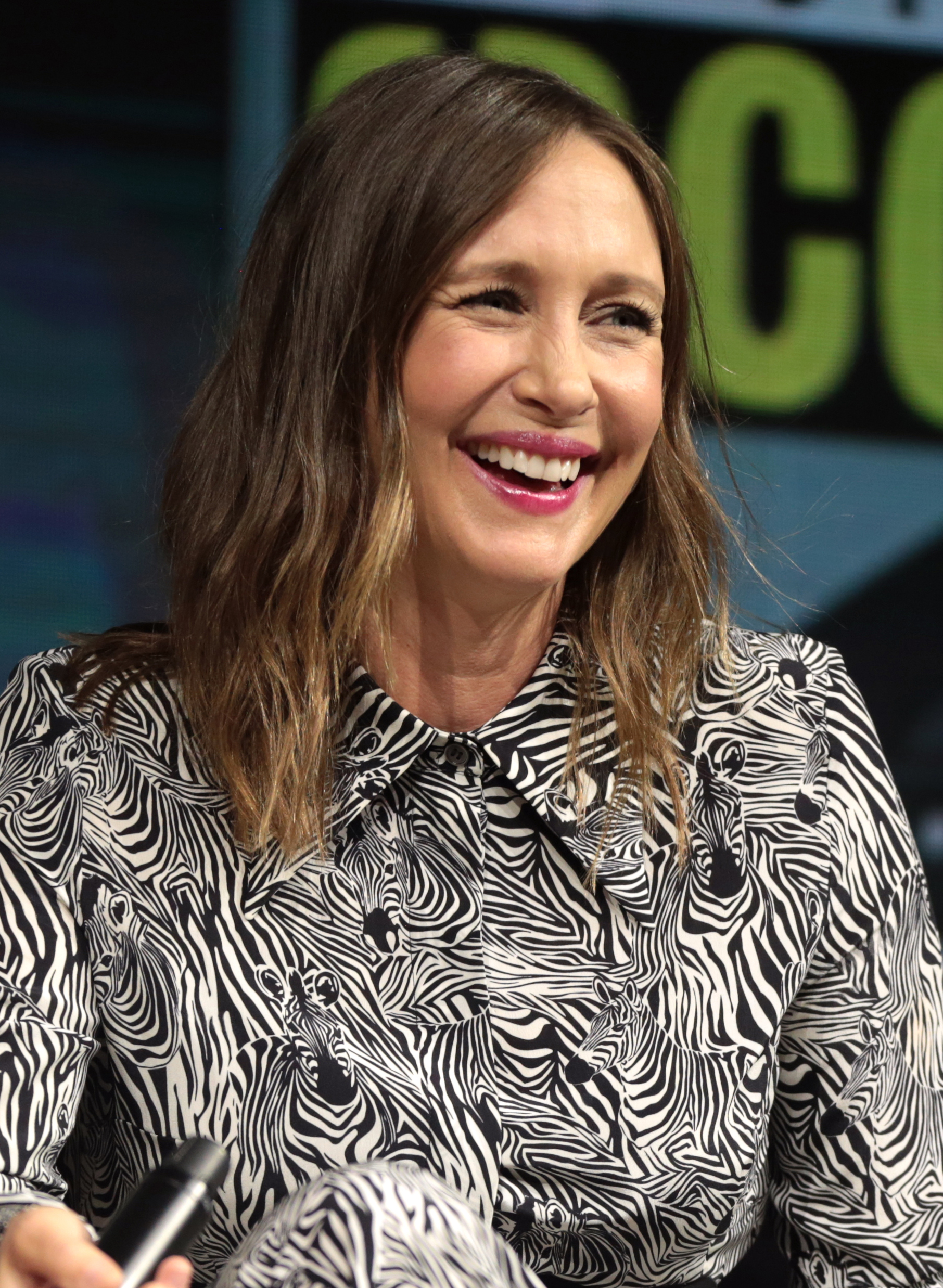 Vera Farmiga speaking at the 2018 San Diego Comic-Con International in San Diego, California.